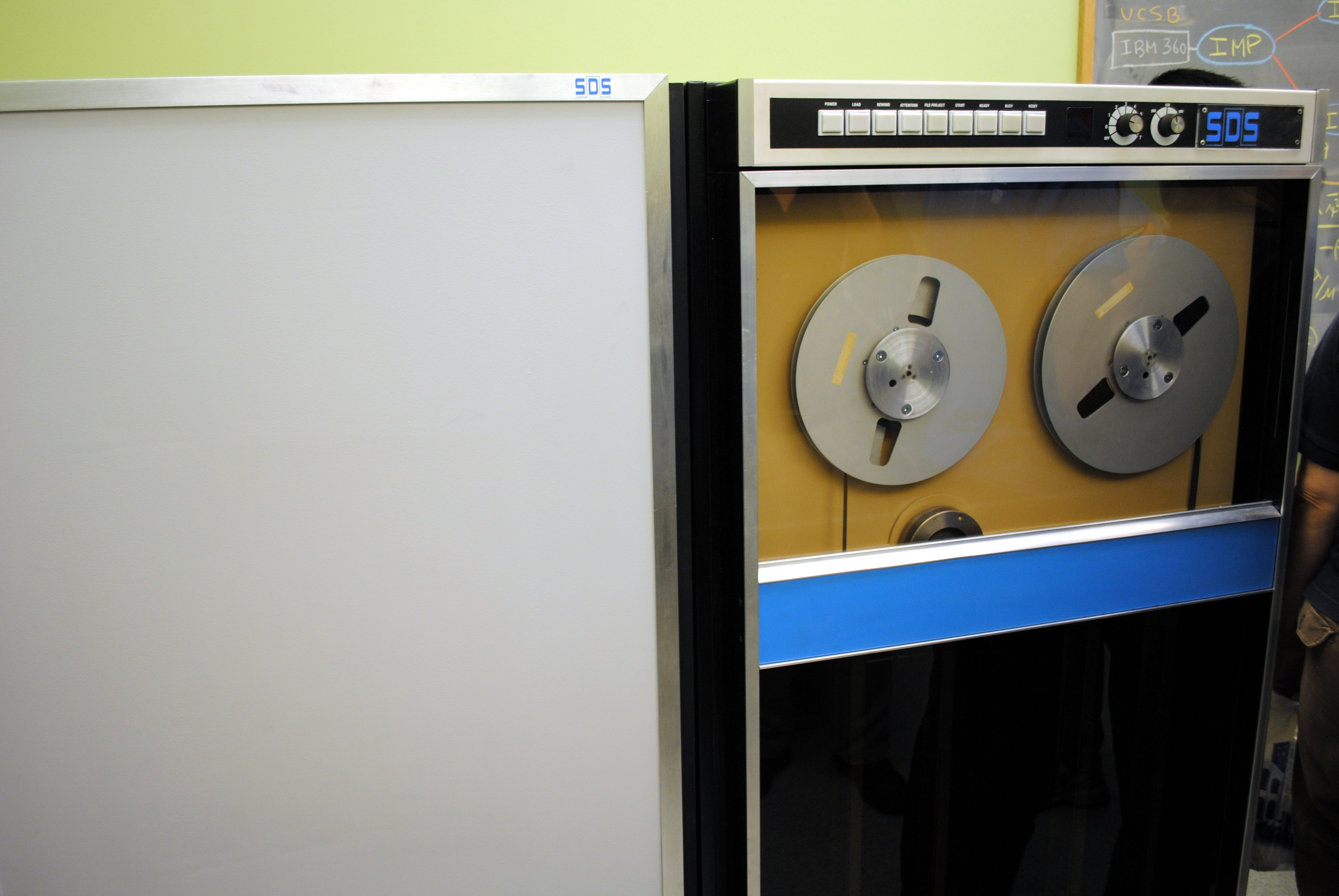 This is the very first computer to ever be connected to the Internet. Of course, back in 1969 it wasn't called the Internet, but the ARPANET, and really there was no ARPANET to connect to - this computer and its accompanying Interface Message Processor formed the first node on the ARPANET, and the connection from UCLA to the Stanford Research Institute (SRI) was the first backbone link on the ARPANET. This computer sent, with the aid of the IMP (which is essentially a router), the very first message ever sent on the Internet, which promptly crashed the computer on SRI's end. I took this photo at the grand re-opening of the original Boelter 3420 lab at UCLA, the birthplace of the Internet, as the Kleinrock Internet Heritage Site and Archive, which will soon open to the public. If you'd like to learn more about the museum, click here..